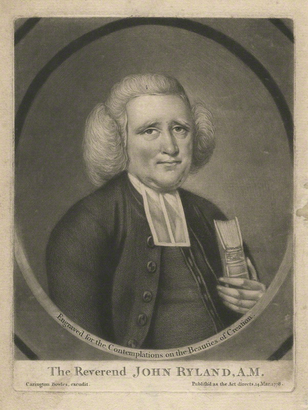 Portrait of John Collett Ryland (1723–1792), English Baptist minister.